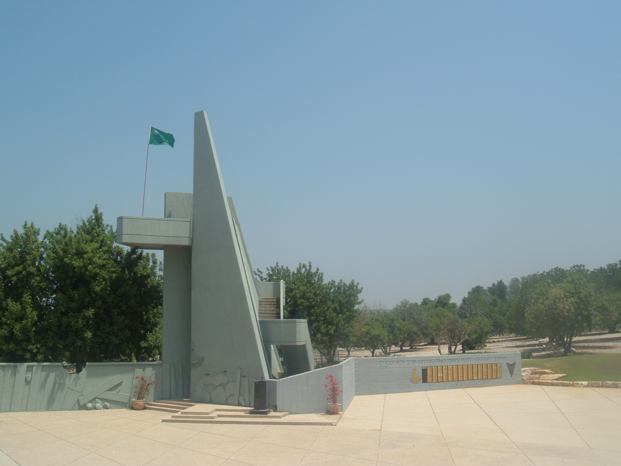 Border Police Nonument, Israel